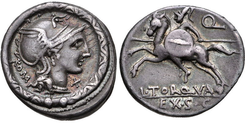 L. Manlius Torquatus 113-112 BC. AR Denarius (18mm, 3.89 g, 4h). Rome mint. Head of Roma right, X (mark of value) below chin; all within decorated torque / Warrior on horseback galloping left, holding spear and shield; Q to right. Crawford 295/1; Sydenham 545; Manlia 2; Type as RBW 1135. VF, deep iridescent toning. From the Andrew McCabe Collection. Ex Spink Numismatic Circular XCVII.10 (December 1989), lot 6403 (£45).